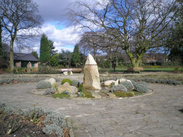 Garden of Tranquility The Garden of Tranquility lies in Hyde Park. It is a memorial for those patients who suffered at the hands of Harold Shipman. The garden includes a granite trickle fountain, designed by Mel Chantry and is surrounded by herbs reclaimed from the old Newton Lodge which once sat on the site.